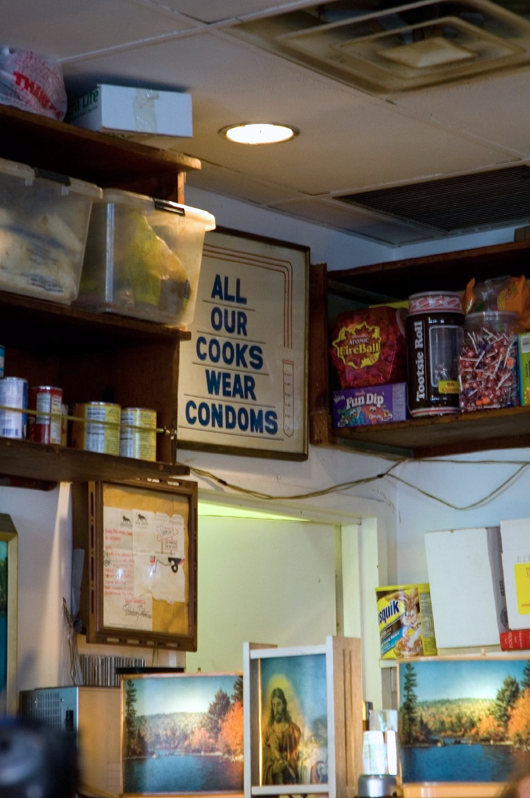 Shopsins interior wall